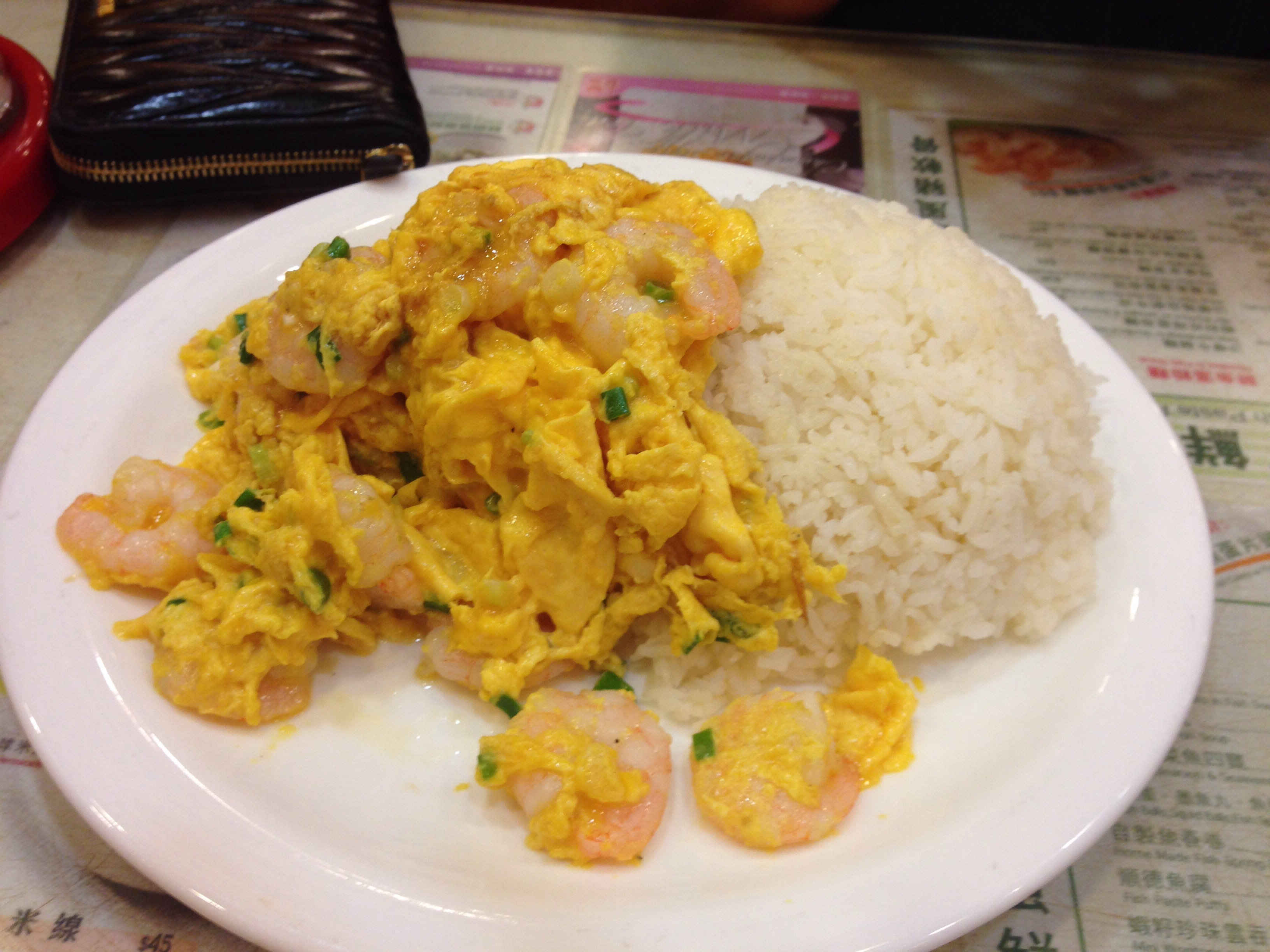 Scramble Egg with Shrimps with Rice